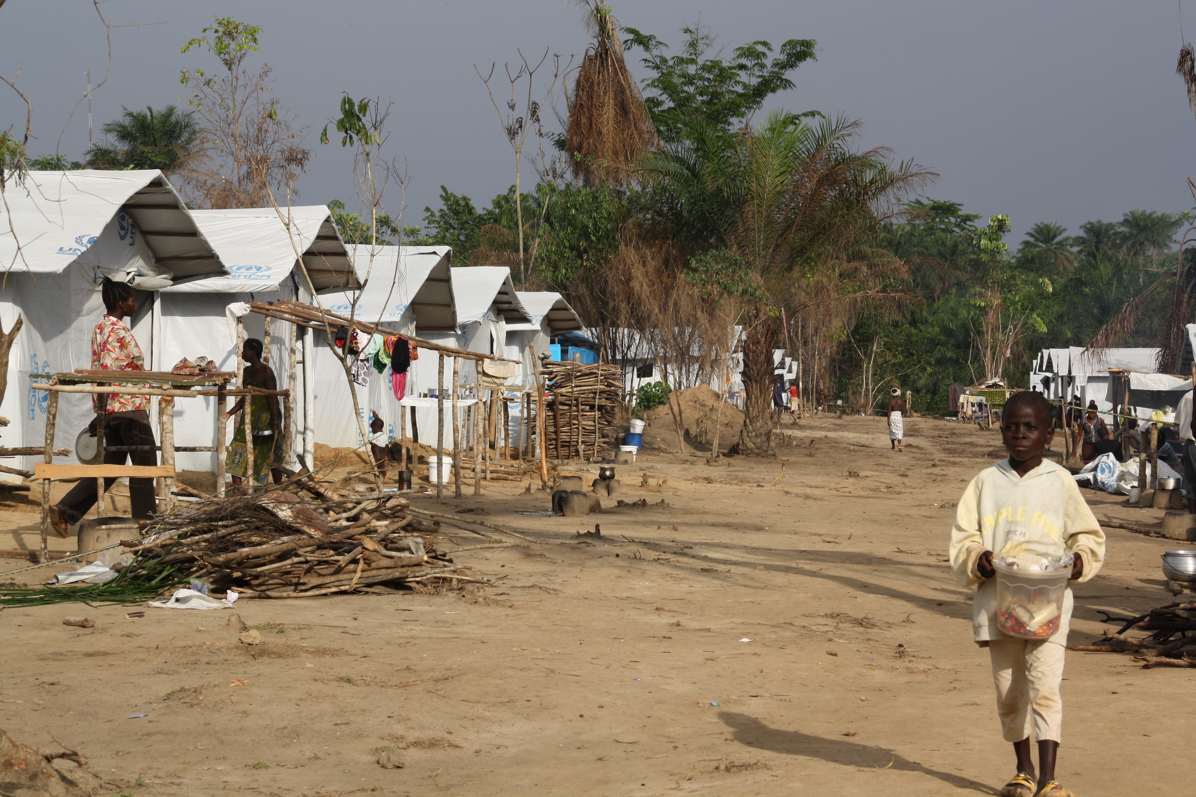 This camp, set up by UNHCR, has capacity for 15,000 refugees. At the time the picture was taken, it was accomodating about 2,000 - but more people are arriving from Ivory Coast every day, fleeing the fierce fighting and political unrest there. The UK government is providing an urgent emergency aid package to help tens of thousands of people affected by the deteriorating humanitarian situation in Liberia and the Ivory Coast. For more information, please visit: Picture: Department for International Development/Derek Markwell Terms of use This image is posted under a Creative Commons - Attribution Licence, in accordance with the Open Government Licence. You are free to embed, download or otherwise re-use it, as long as you credit the source as 'Department for International Development'.